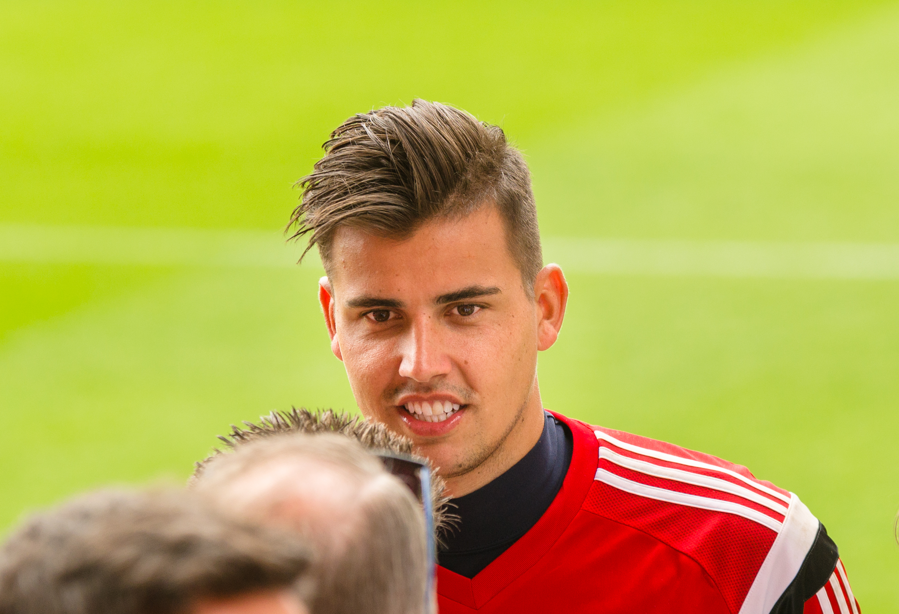 Karl Darlow in training with Nottingham Forest